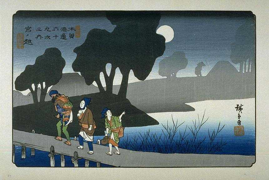 Miyanokoshi on the Kisokaido, ukiyo-e prints by Hiroshige